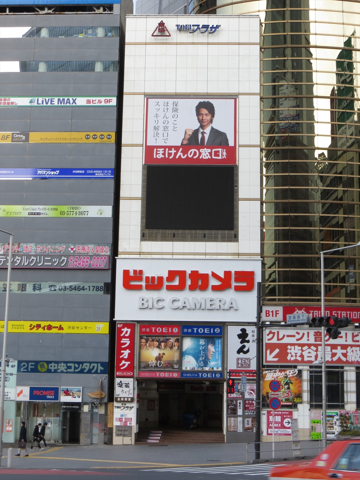 Shibuya TOEI.